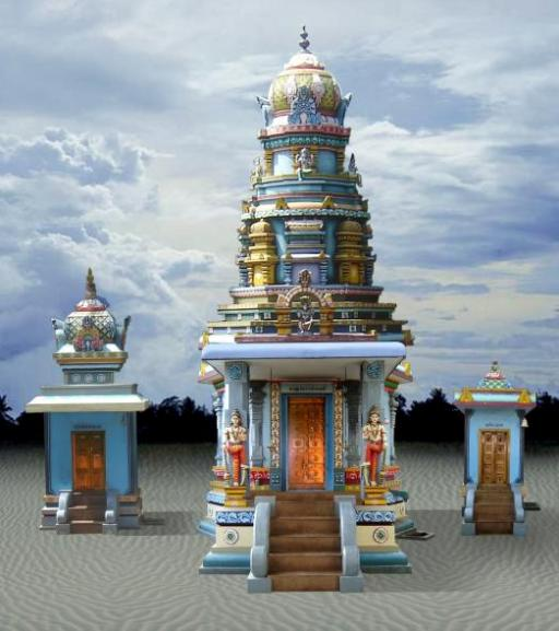 Kottagom Sree Krishna Temple.